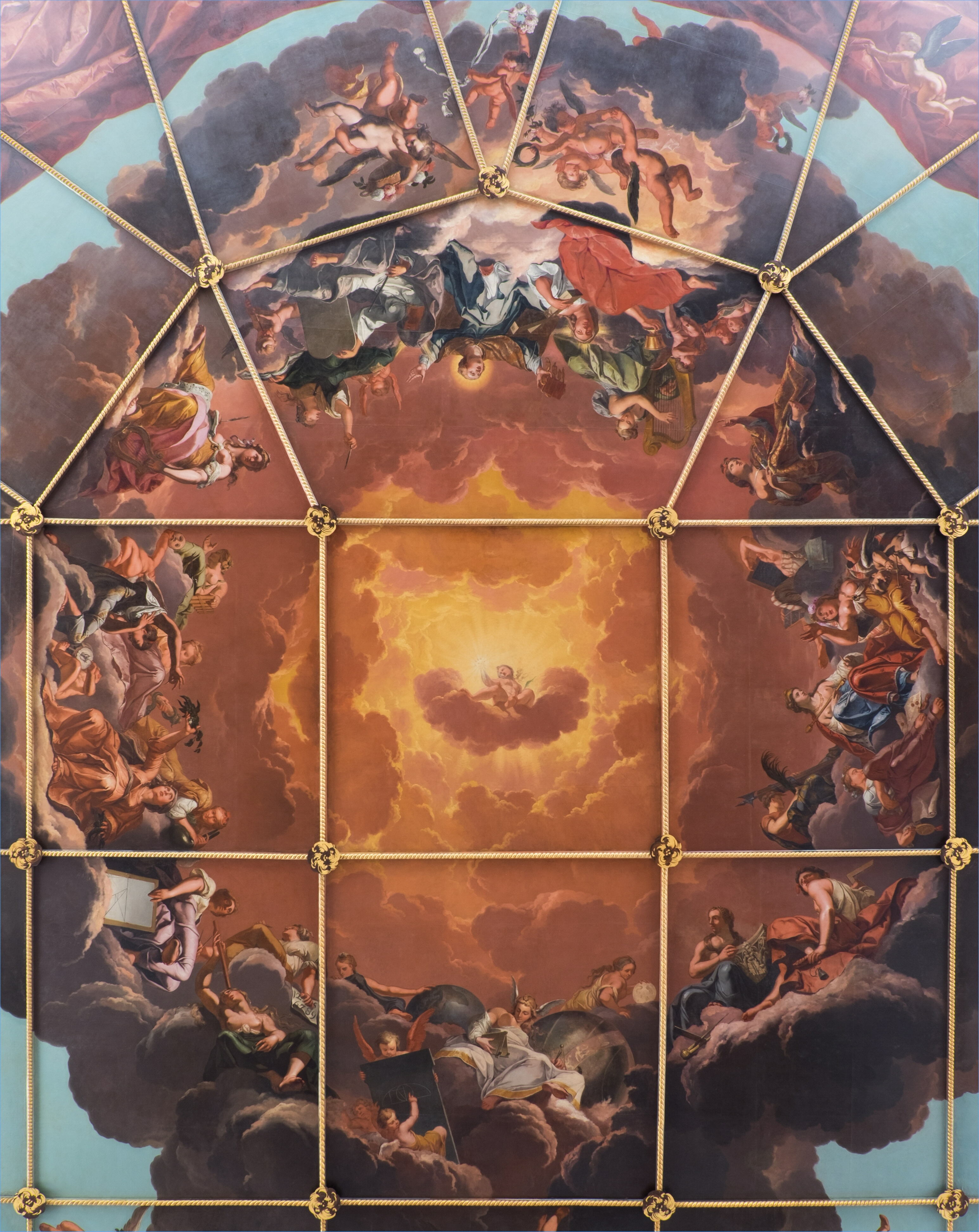 The ceiling fresco centrepiece in the Sheldonian Theatre, University of Oxford. Painted by Robert Streater and completed in 1670. A restoration of this work was completed in 2008.